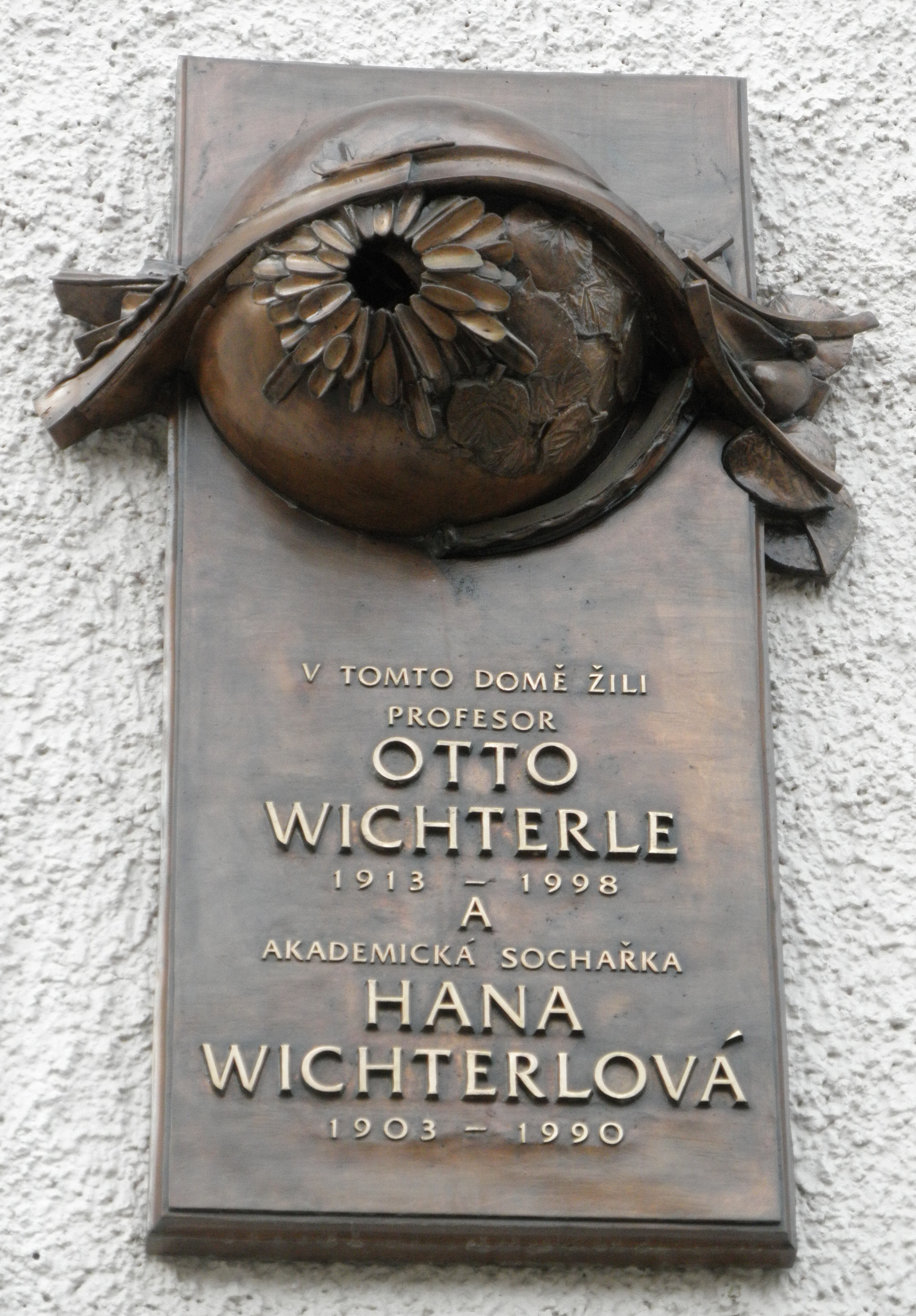 Memorial plaque of Czech scientist Otto Wichterle and of his sister, Czech sculptor Hana Wichterlová at their house at Svatoplukova street in Prostějov.